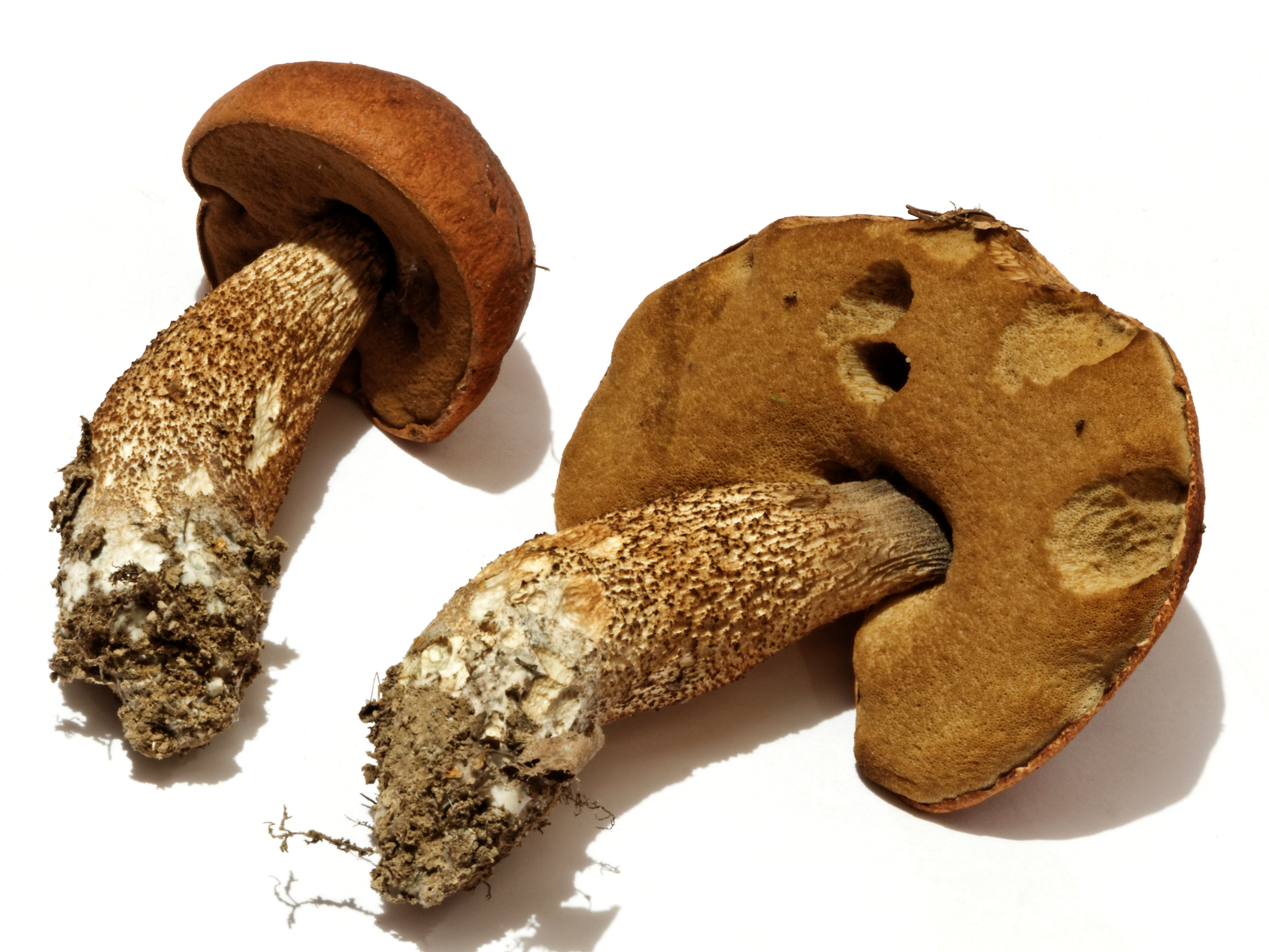 Red-capped scaber stalk (Leccinum aurantiacum).